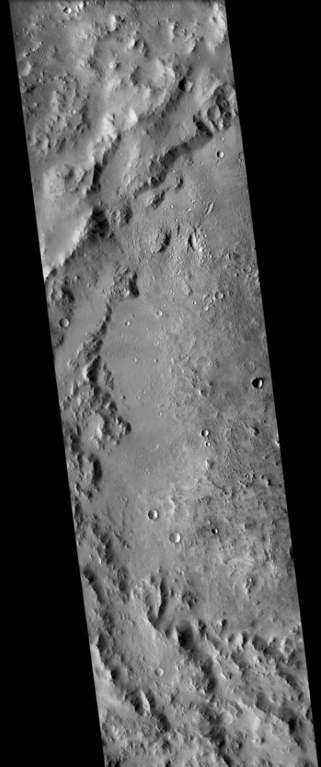 West side of Du Martheray Crater, as seen by ctx